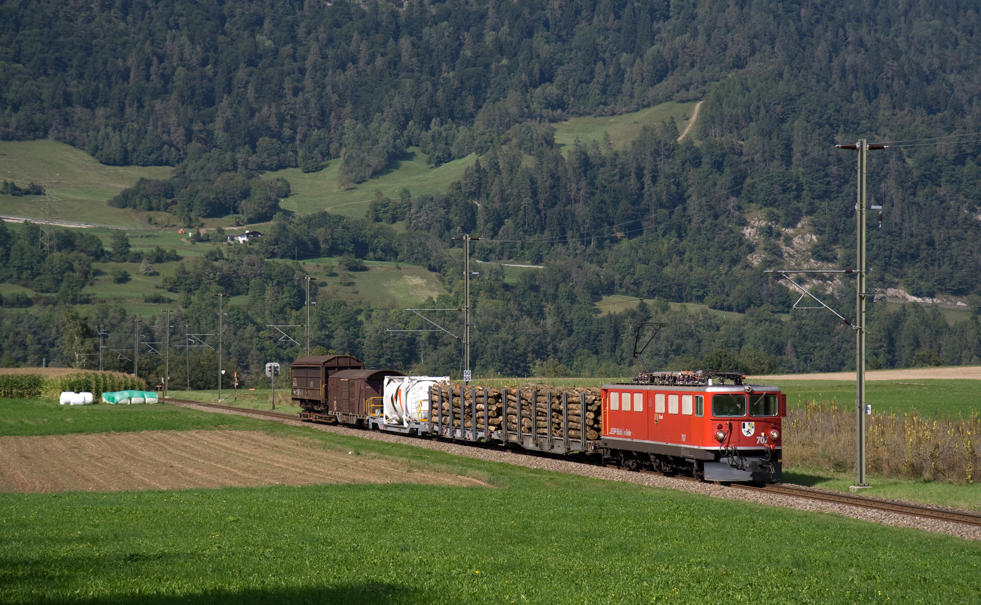 Narrow gauge RhB freight train between Reichenau-Tamins and Bonaduz pulled by a Ge 6/6 II with a standard gauge SBB freight car on a transporter wagon.